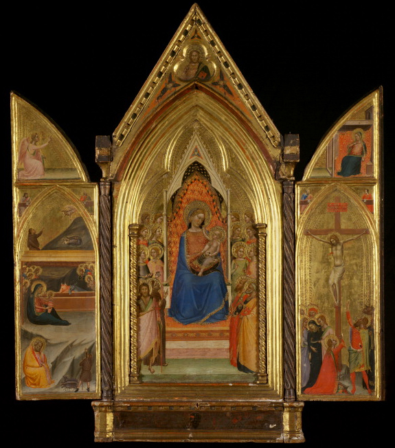 Bernardo Daddi, Triptych: The Virgin and Child Enthroned with Saints, tempera and gold leaf on panel, dated 1338; in the Courtauld Gallery; open